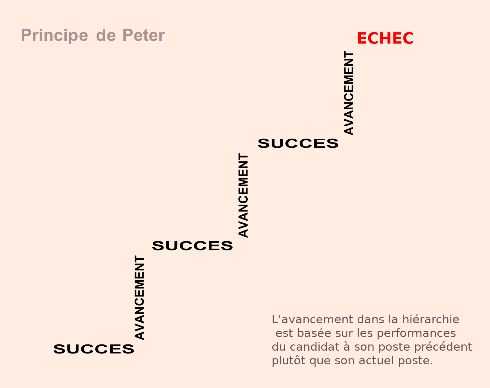 peter principle